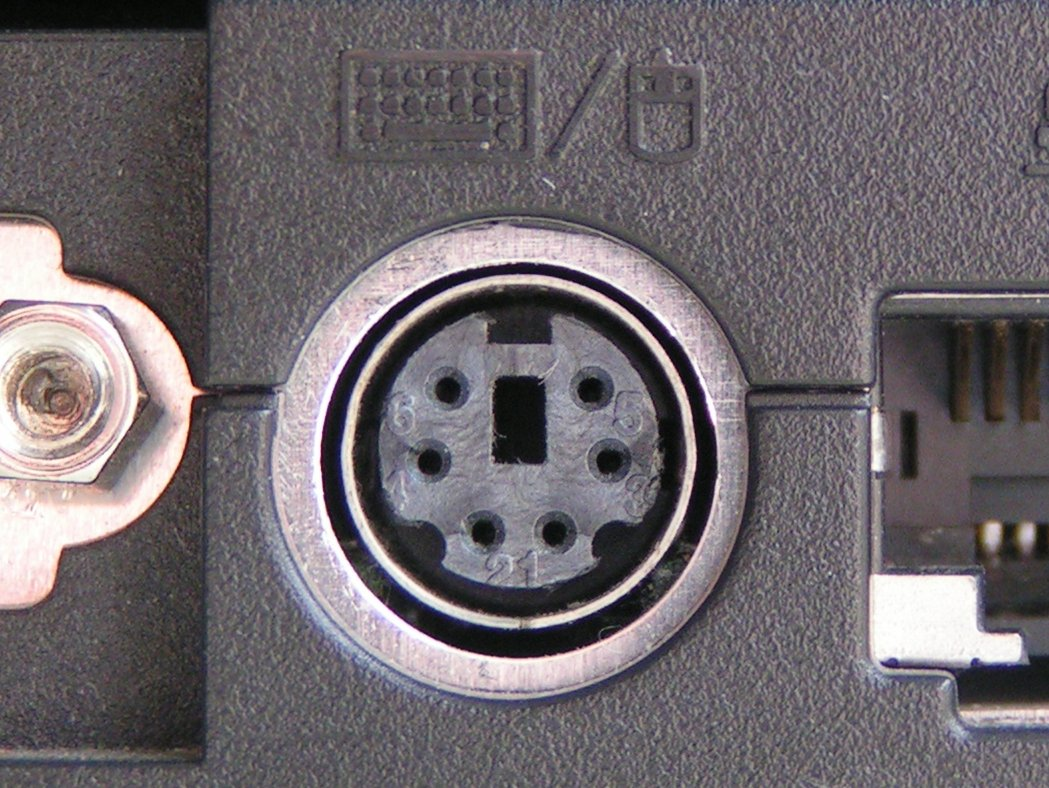 PS/2 Computer Port